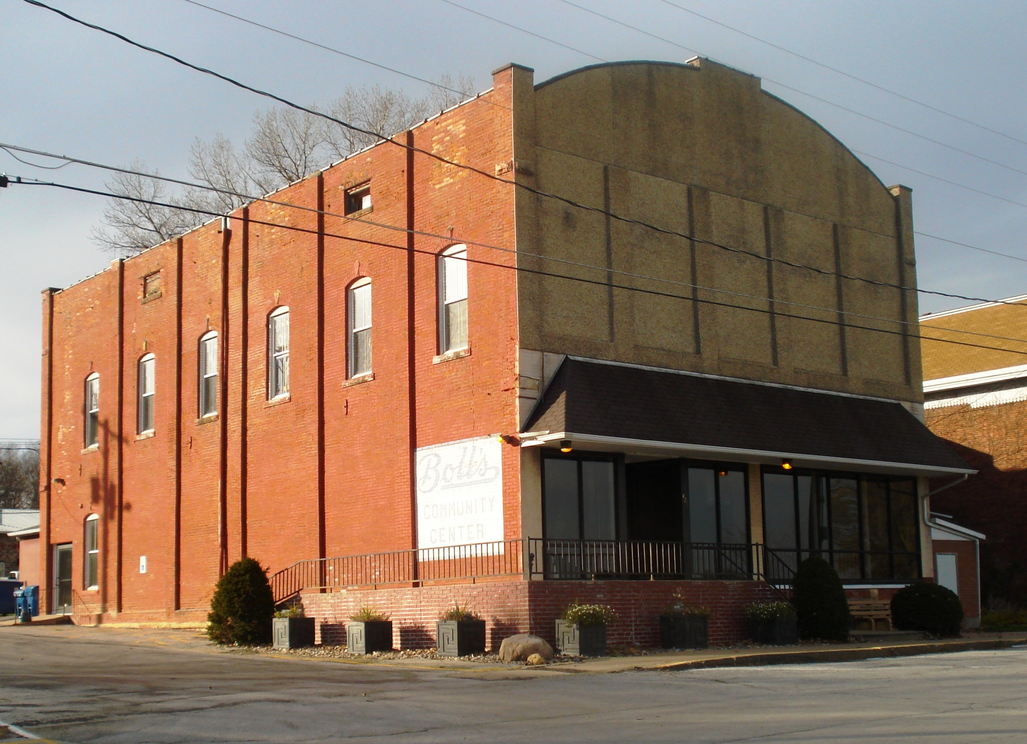 A former commercial building that now houses the Boll's Community Center.